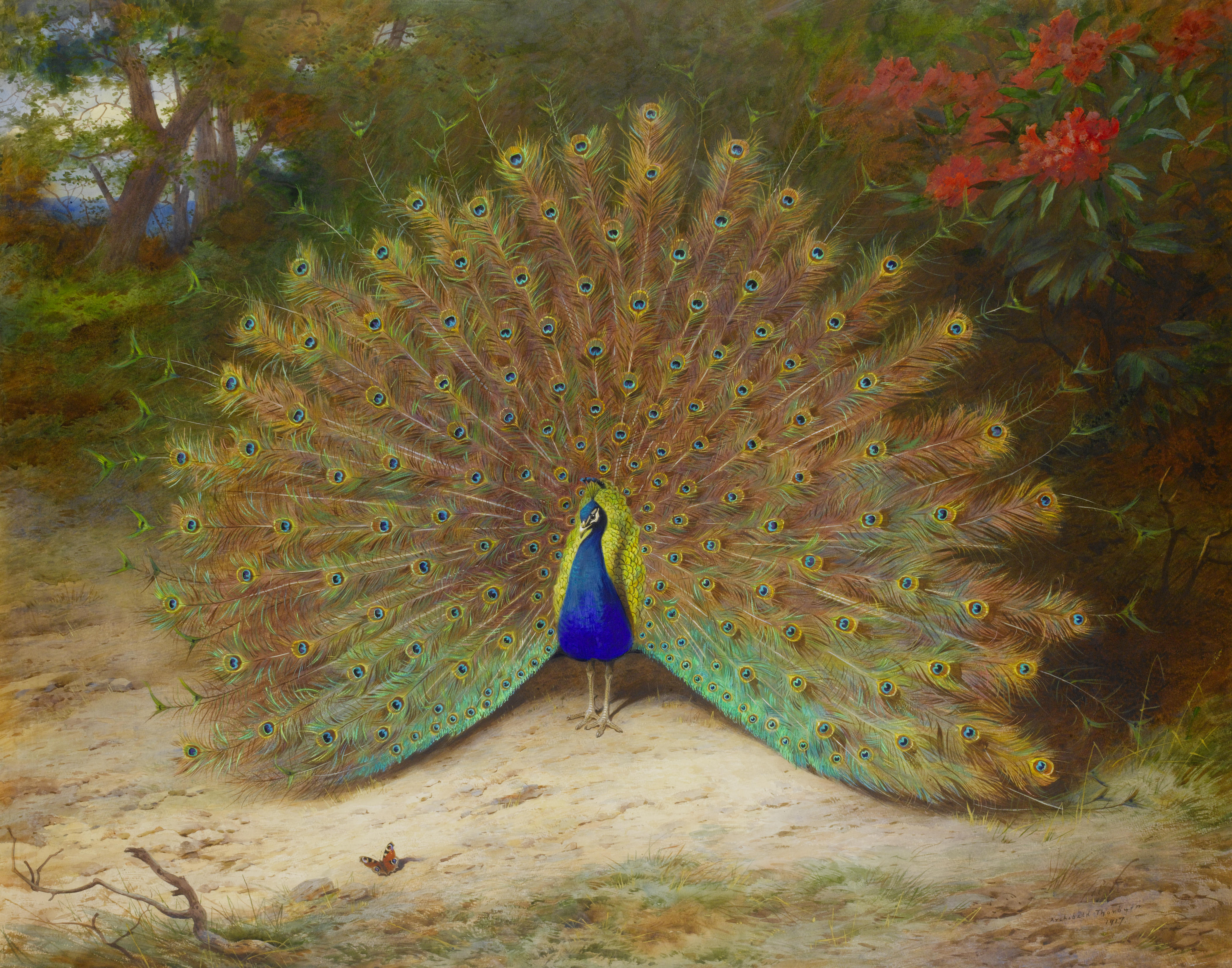 Peacock and Peacock Butterfly, painting by Archibald Thorburn, 87.5 x 111.5 cm.